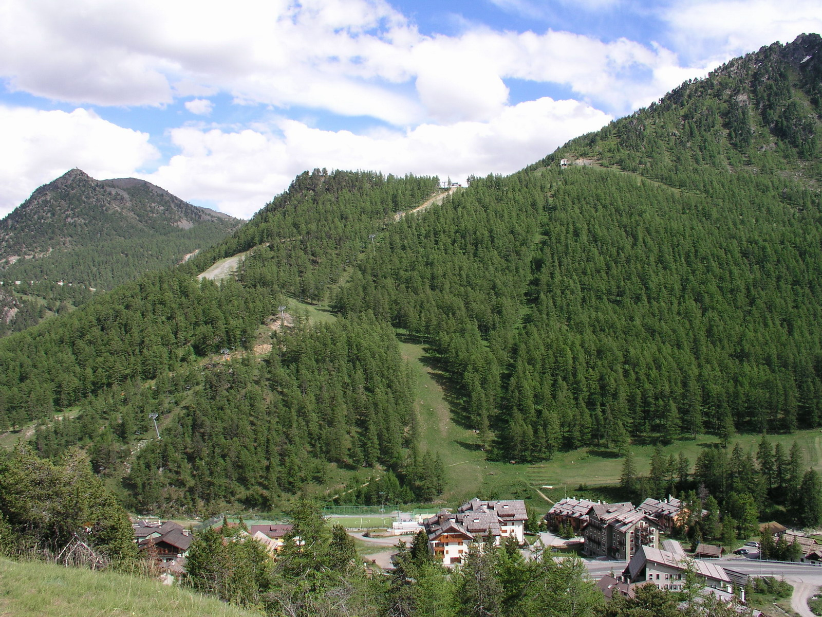 General view of Claviere (province of Turin, Italy)